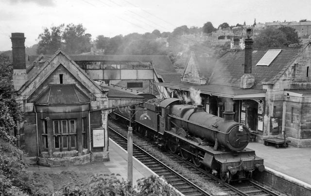 Bradford-on-Avon Station, with train. View NW, towards Bath; ex-GWR (Bristol/Cardiff - Bath - Westbury - Salisbury/Weymouth secondary main line. Note the attractive architecture, which harmonizes with the picturesque town. The train is the 17.20 Bristol - Westbury service, headed by a 'Hall' class 4-6-0.